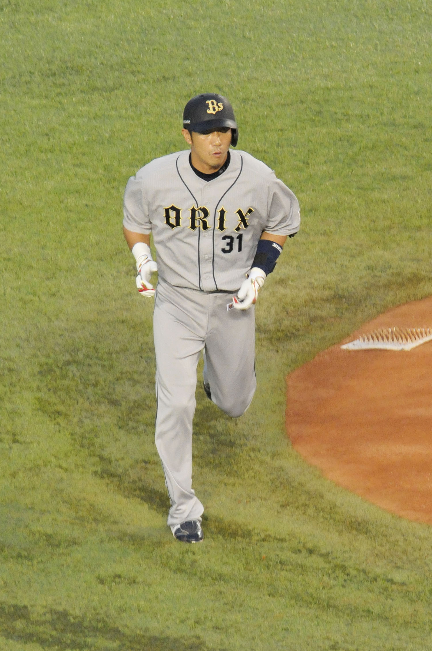 Hisao Arakane, outfielder of the Orix Buffaloes, at Chiba Marine Stadium.